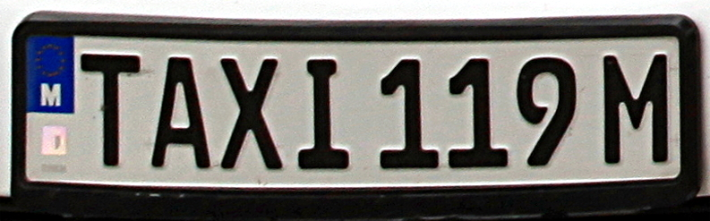 Maltese taxicab plate (retouched)